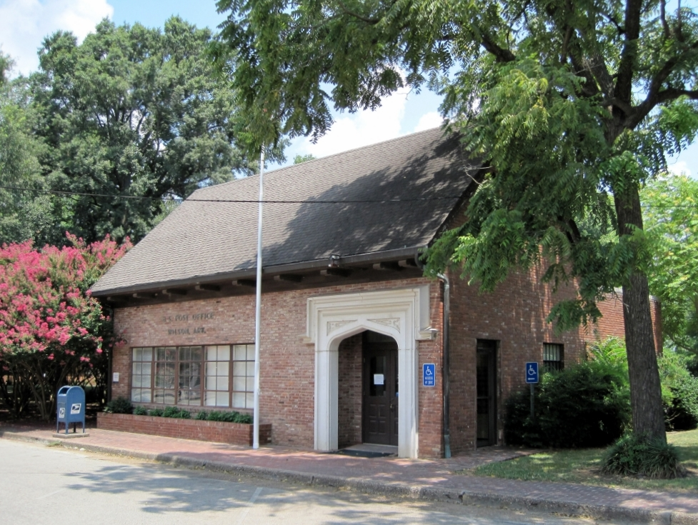 Wilson, Arkansas. USPS post office